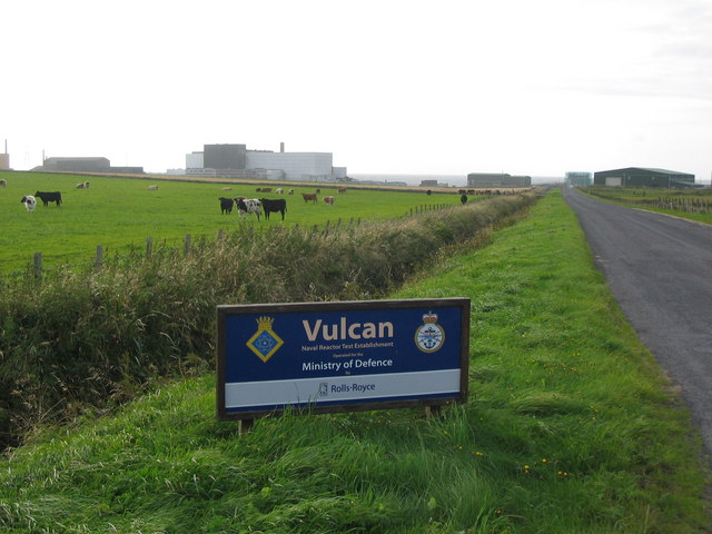 Entrance road to Vulcan NRTE A view looking to the northwest from the A836 towards the entrance to the Vulcan Nuclear Reactor Test Establishment.